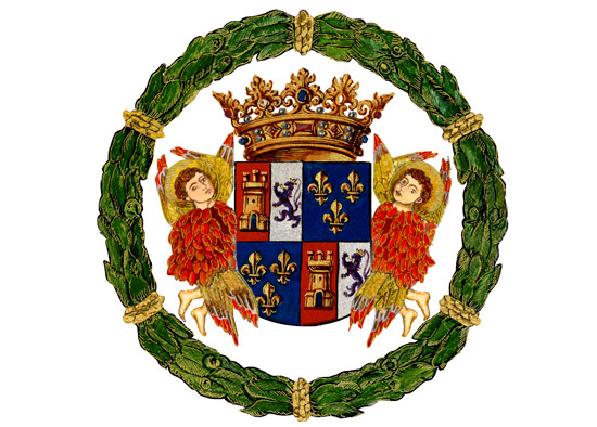 Ducal House of Medinaceli Coat of Arms